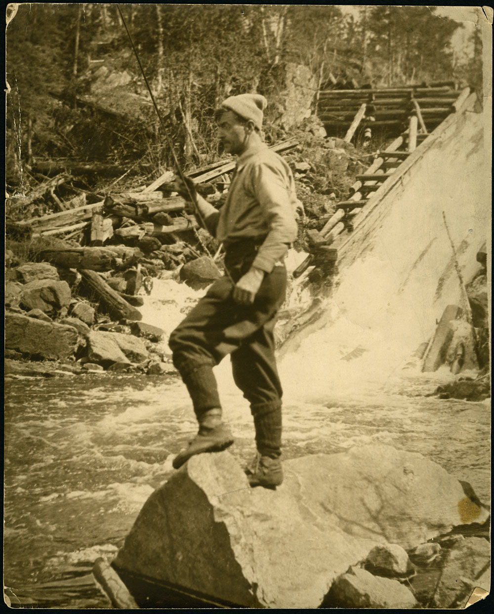 Tom Thomson, standing on a rock fishing in moving water at Tea Lake Dam, Algonquin Park, 1916